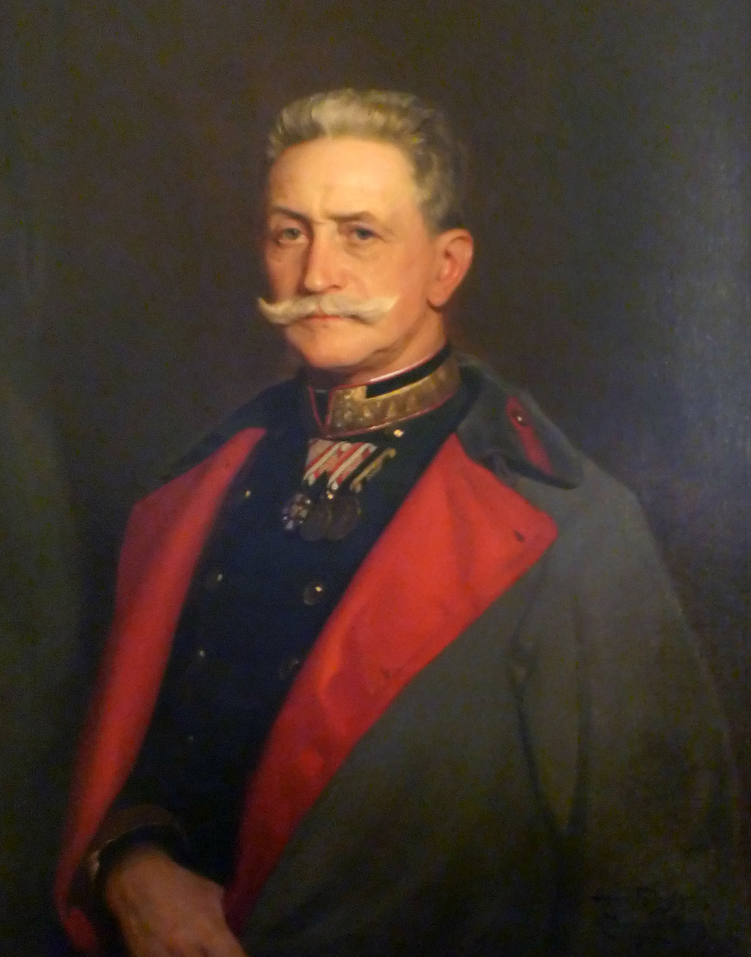 Franz Graf Conrad von Hötzendorf, Austro-Hungarian general, Chief of the General Staff of the Austro-Hungarian Army. Heeresgeschichtliches Museum Native nameHeeresgeschichtliches MuseumLocationViennaCoordinates48° 11′ 07″ N, 16° 23′ 15″ E Established1856Website control VIAF: 149726120 ISNI: 0000 0001 2182 8171 LCCN: n50055593 GND: 2006452-4 SUDOC: 028009010 WorldCat